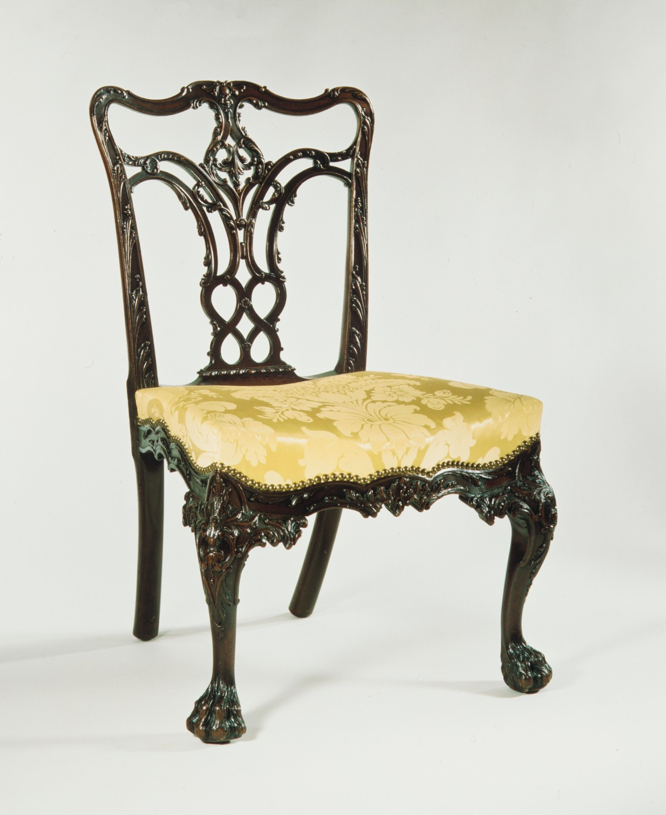 American; Side Chair; Furniture